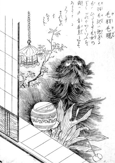 Keukegen (毛羽毛現, a creature made of hair) from the Konjaku Hyakki Shūi (今昔百鬼拾遺)